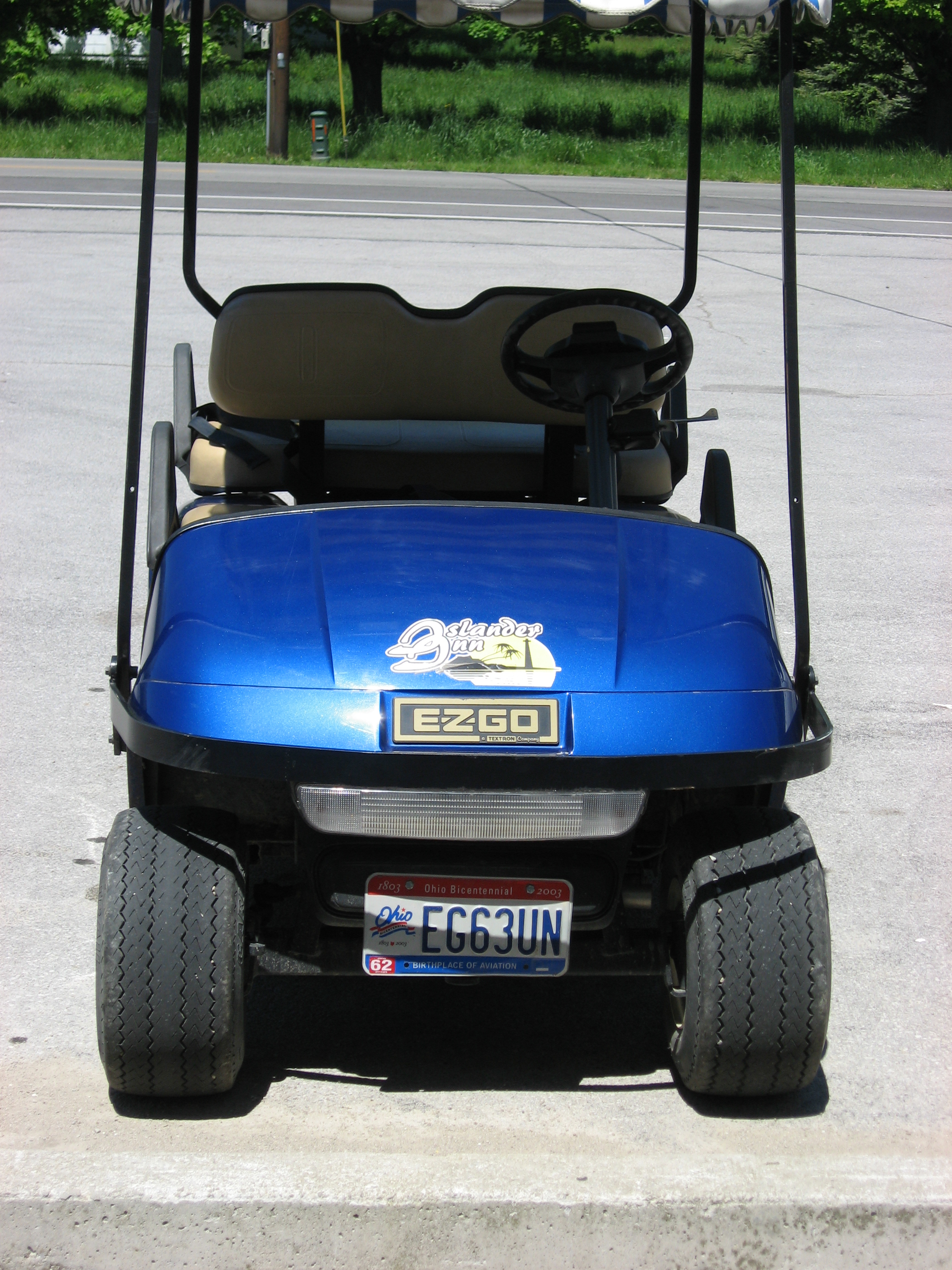 Front view of a golf cart with an Ohio front license plate. In Ohio, golf carts can be licensed and treated like road vehicles. Such a practice is especially common in resort-type communities, such as this one, taken at Put-in-Bay on Lake Erie.